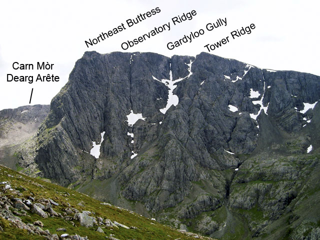 The north face of Ben Nevis showing the main topographic features. Taken on 1 July 2006 and annotated by Blisco.